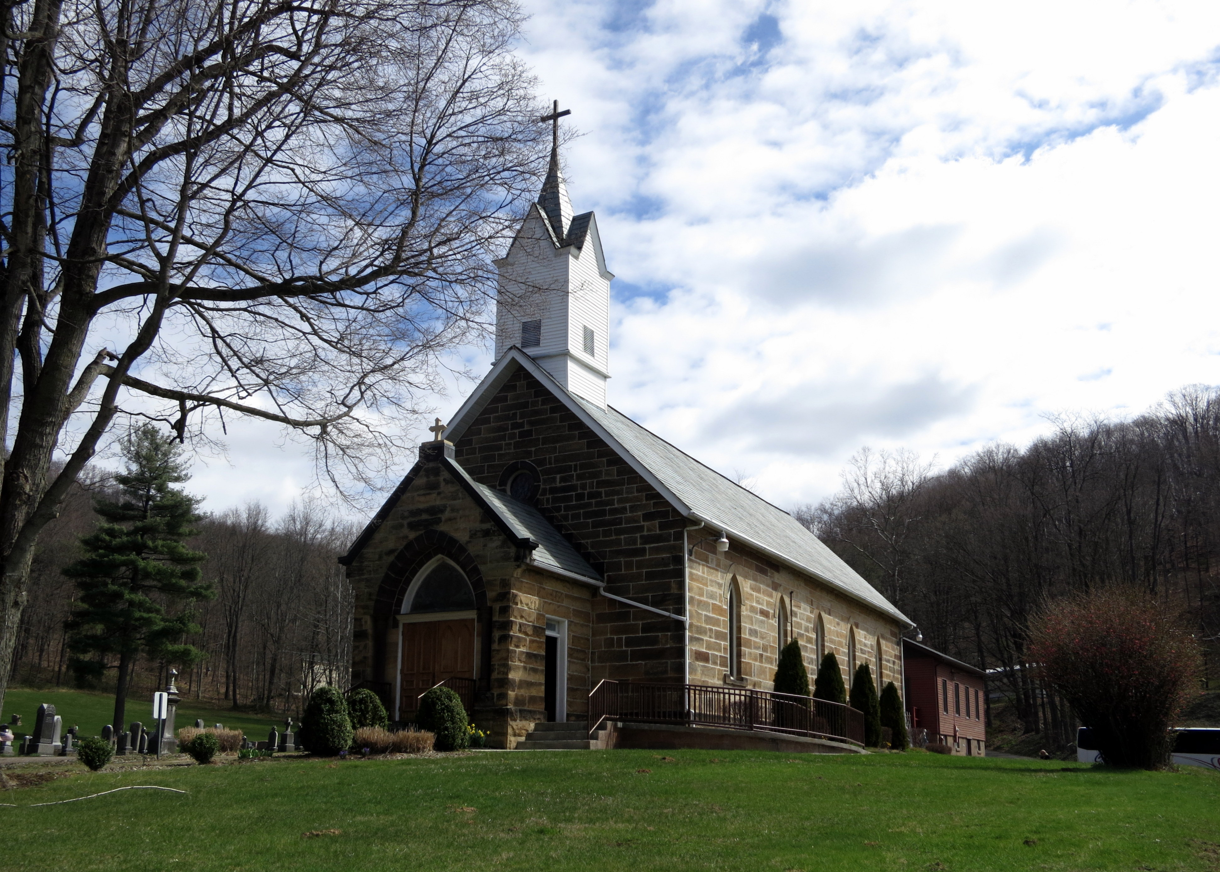 Saints Peter & Paul Catholic Church (Glenmont, Ohio) - exterior